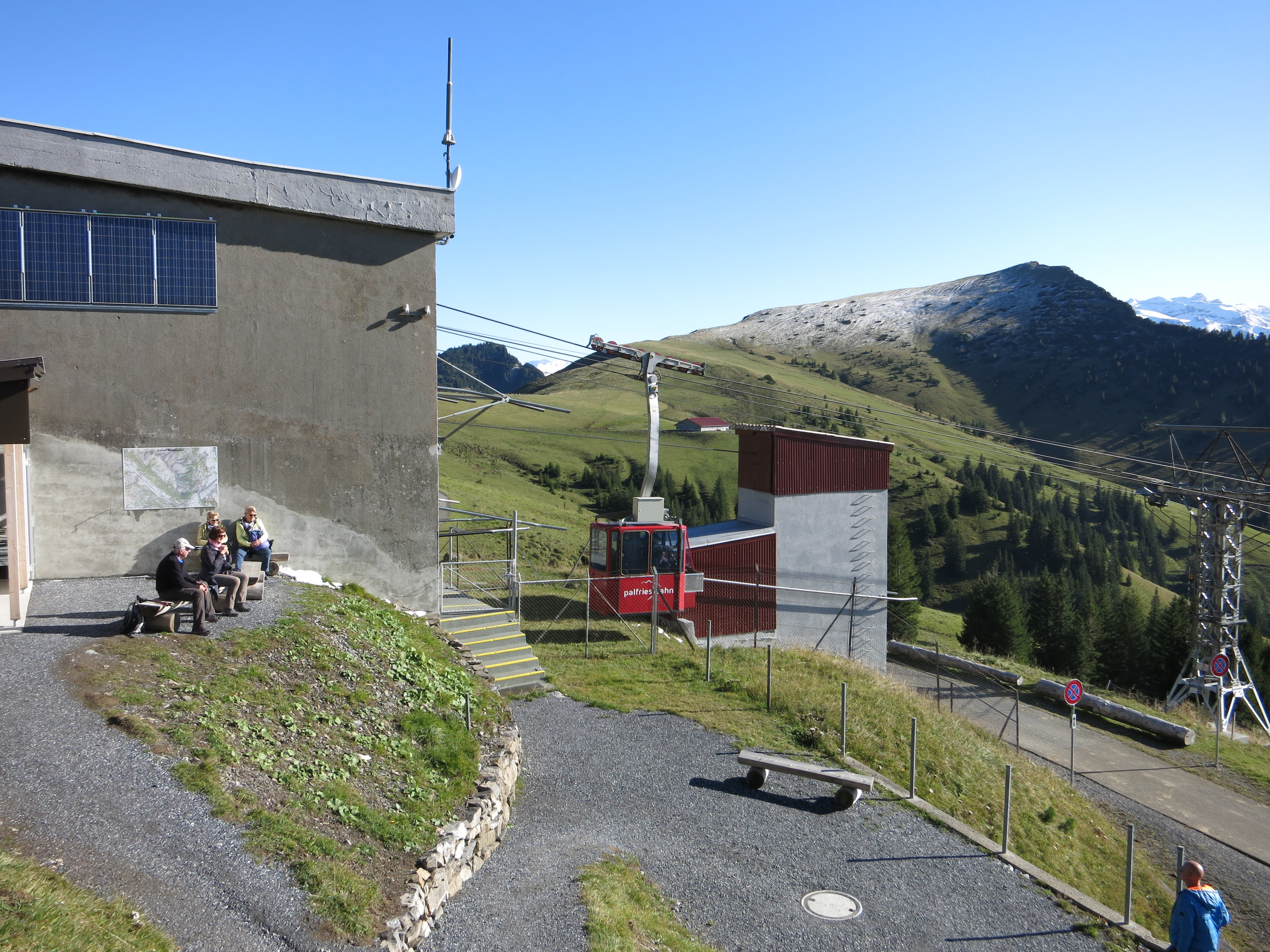 Cablecar Palfriesbahn, Switzerland